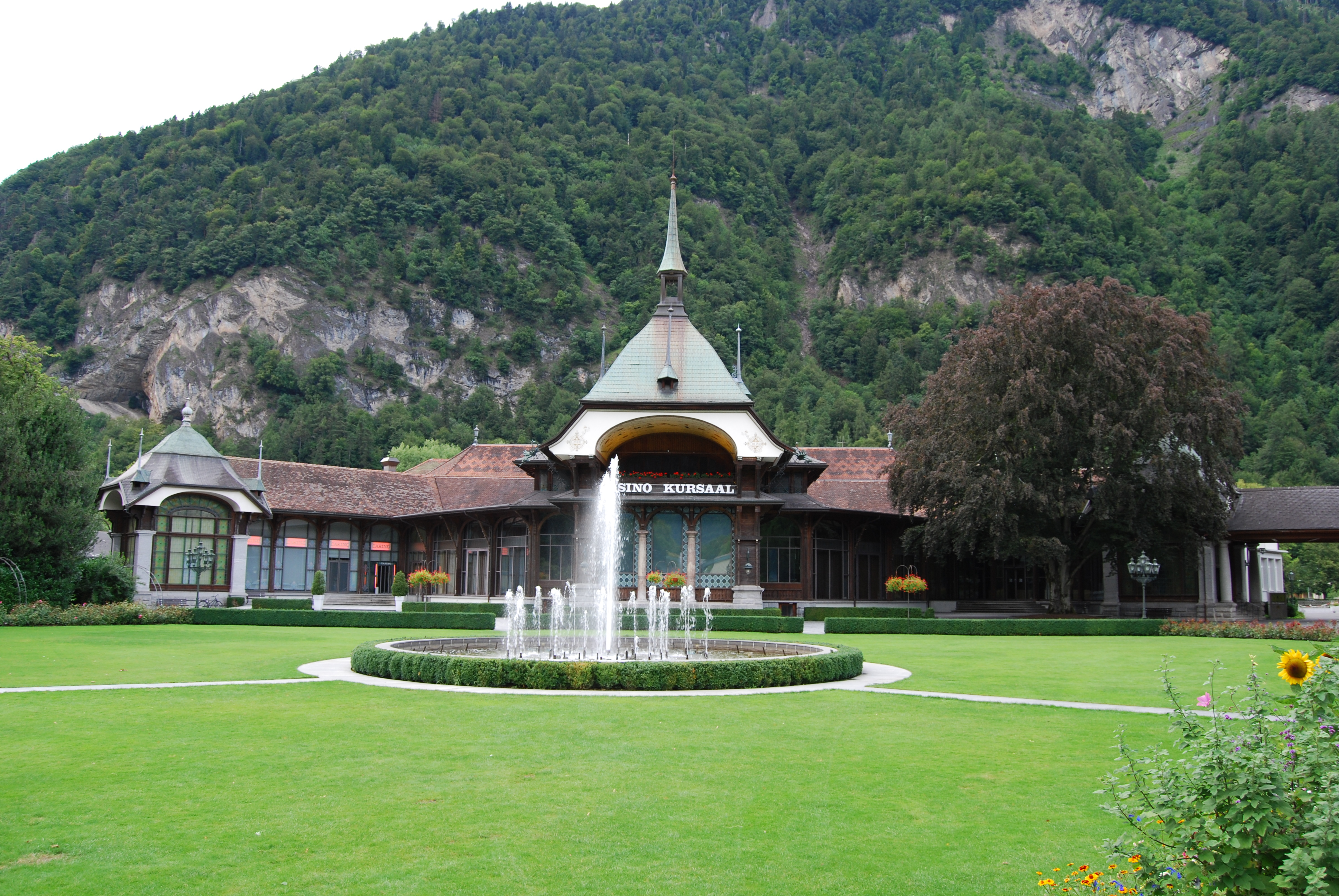 Casino Interlaken, canton of Bern, Switzerland